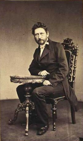 Jens Finsteen Giødwad (1811-1891), Danish journalist and newspaper editor